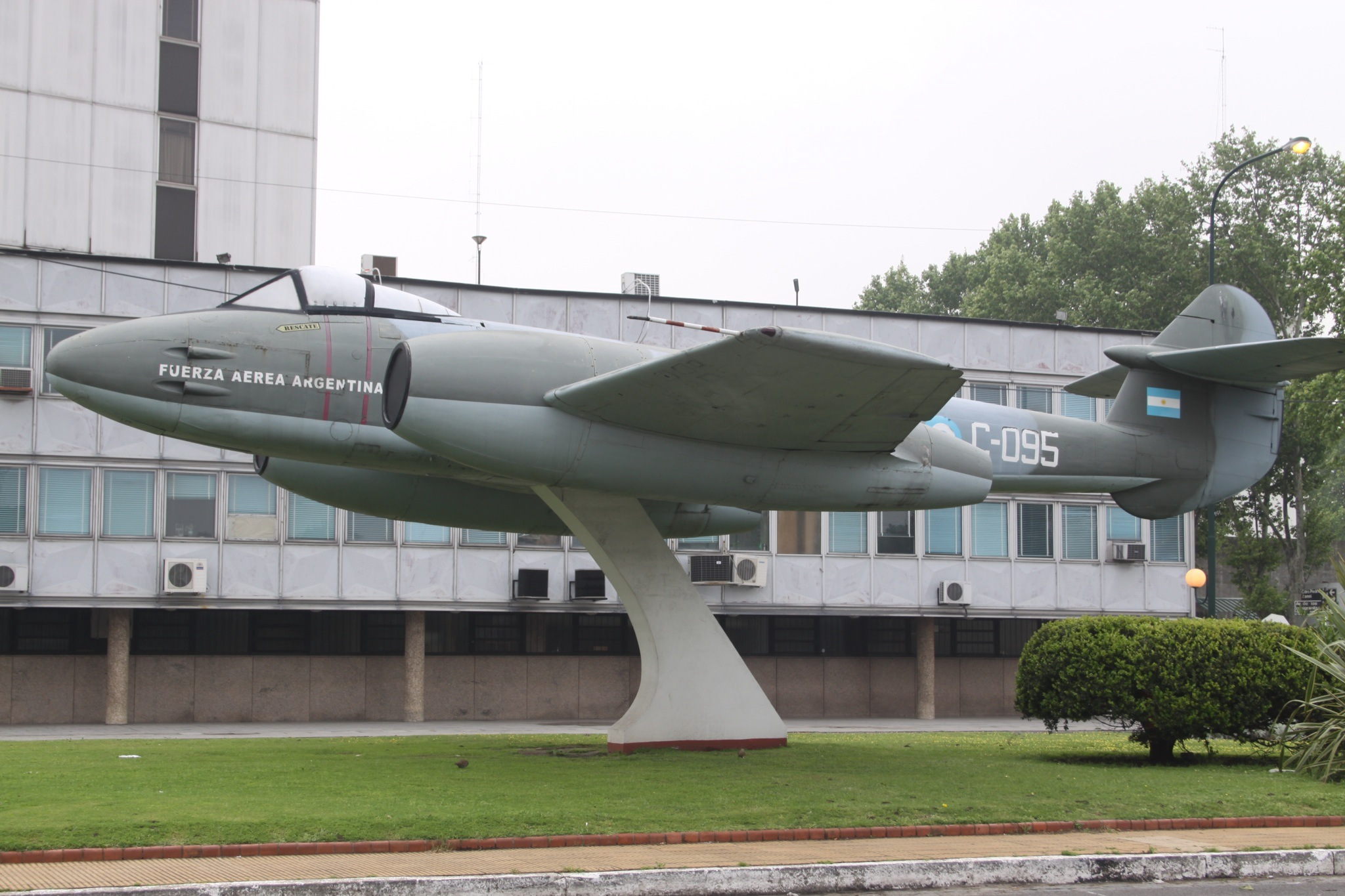 At Argentine Air Force Headquarters, Buenos Aires